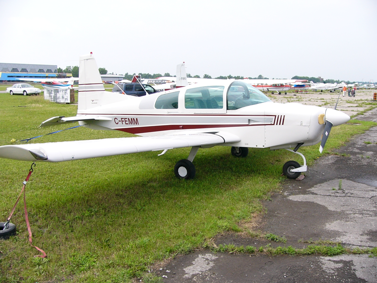 A Grumman American AA-5 Traveler (C-FEMM)